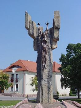 Corpus Hungaricum in Szekesfehervar, Hungary. Sculptor Nandor Wagner